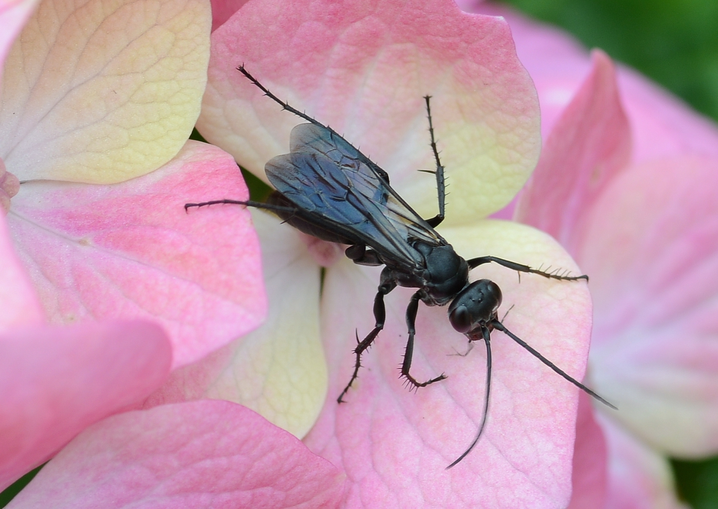 Spider wasp (Anoplius nigerrimus)